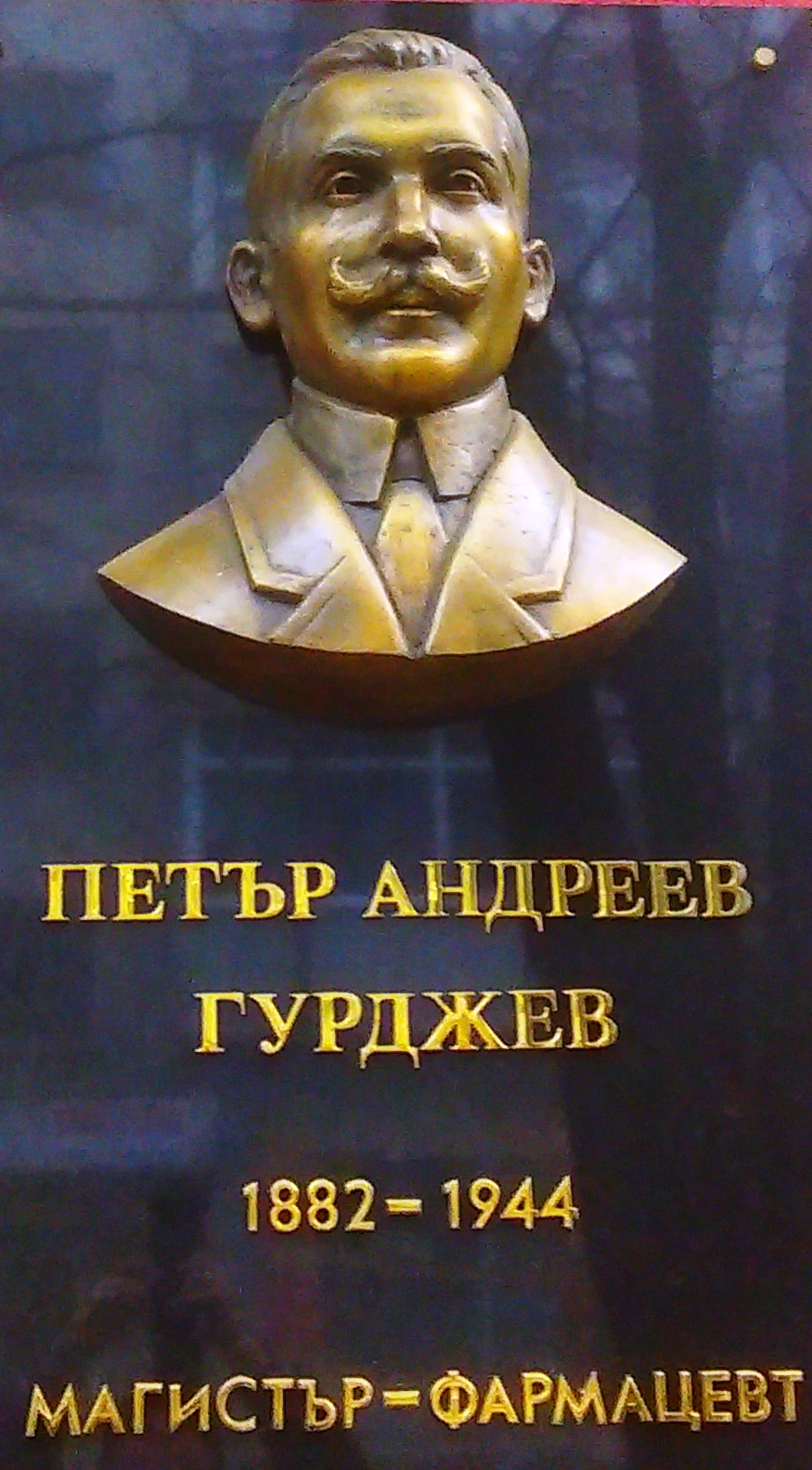 Bas-relief of the master pharmacist Peter Gurdzhev, that managed one of the first pharmacies in Yambol, Bulgaria. The bas-relief is located on the facade of the building where the pharmacy, known in the city as the Gurdzheva Pharmacy, was located.